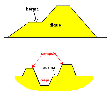 berms